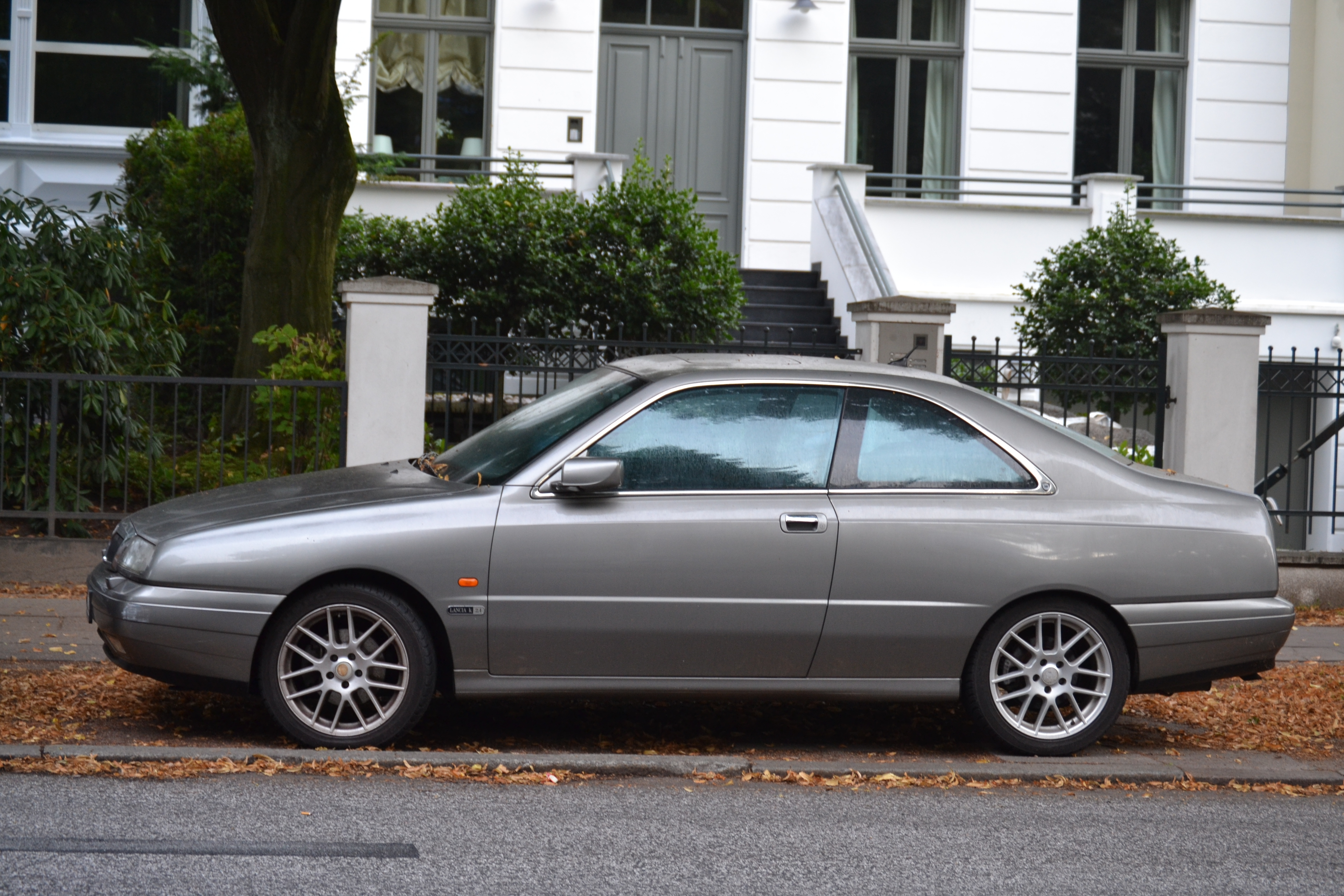 Lancia Kappa Coupé